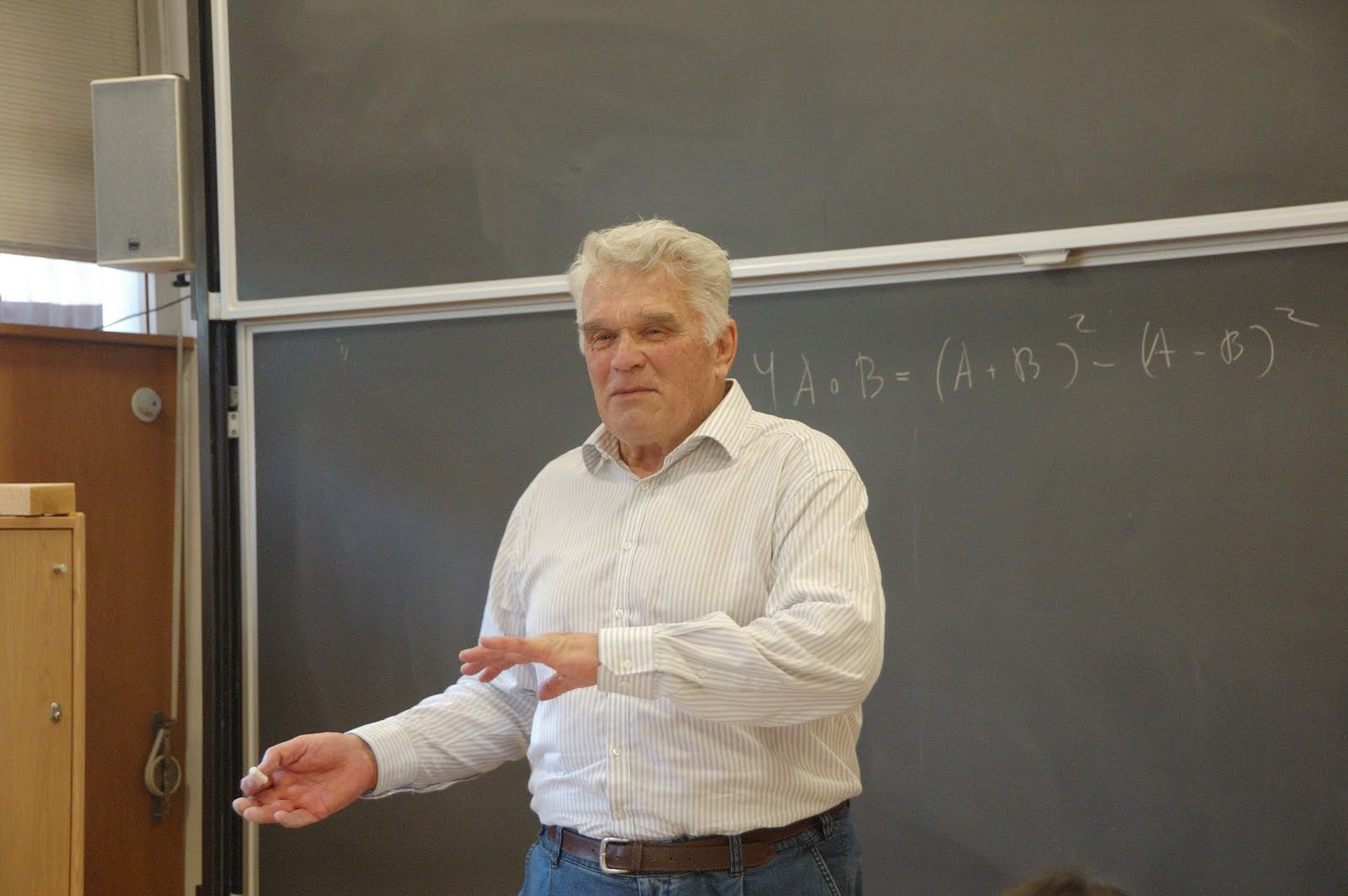 Ludvig Dmitrievich Faddeev giving a talk during a QGM Workshop at Aarhus University in August, 2010.